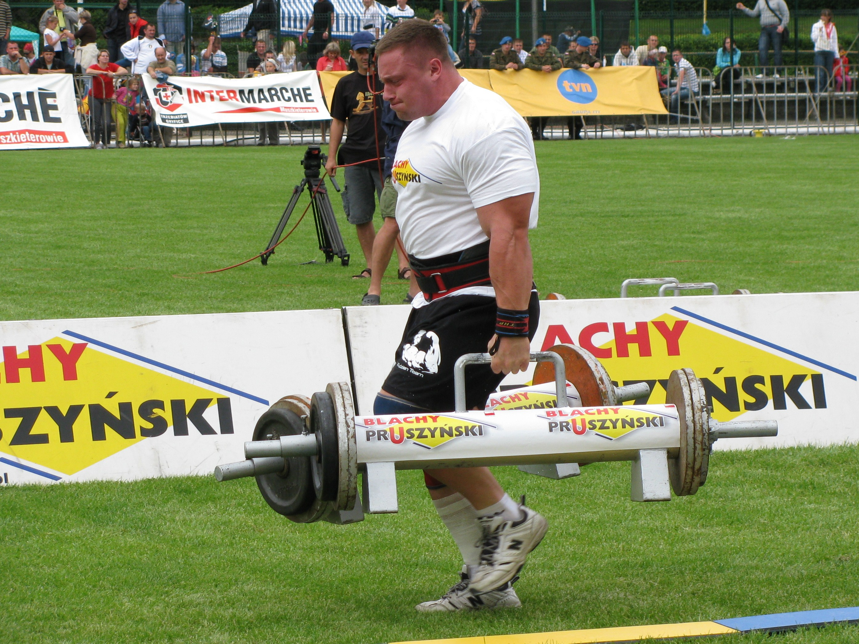 Krzysztof Radzikowski - a strength athlete from Poland at Farmer's Walk.